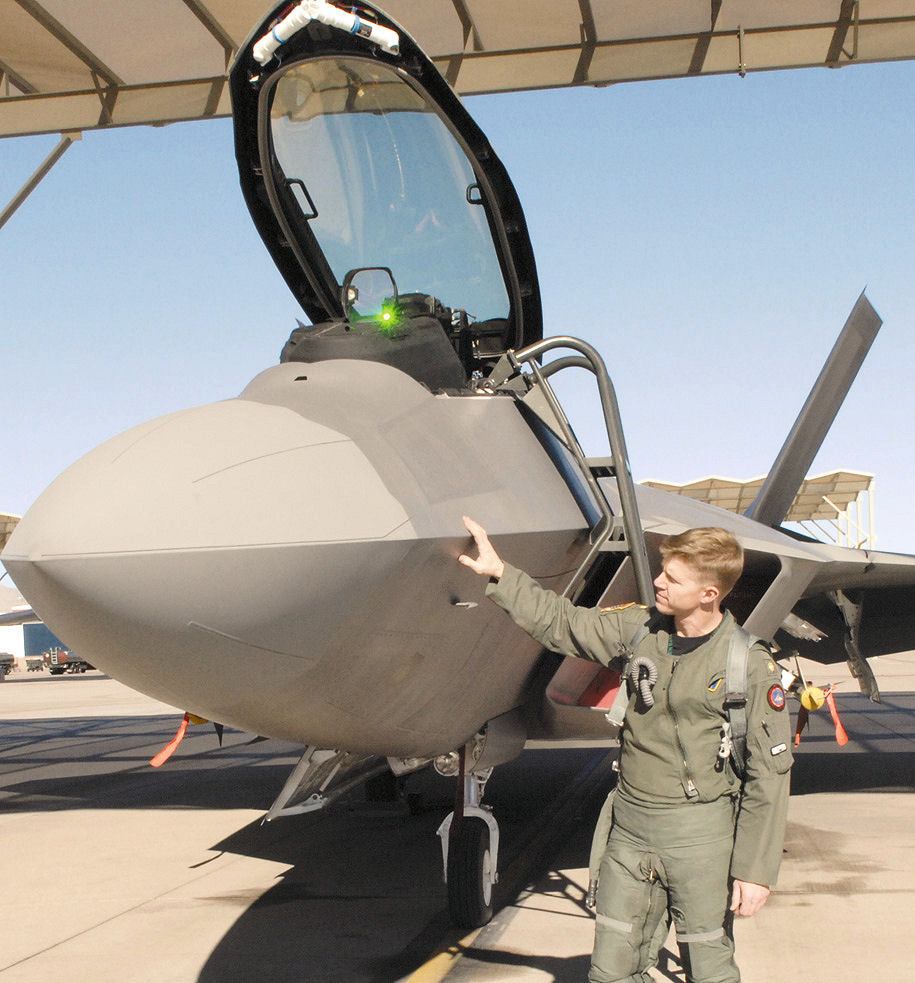 Lt. Cmdr. Michael Wosje, 59th Test and Evaluation Squadron F-22 pilot, conducts a pre-flight inspection on Nellis’ newest edition to the Raptor family. “I got to fly this one in as soon as it was completed from the assembly line from Marietta, Ga.,” said Commander Wosje. He is the only Navy pilot flying the Raptor for the Air Force.(U.S. Air Force Photo/Airman 1st Class Brian Ybarbo)